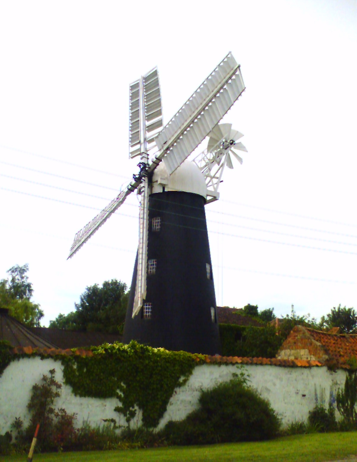 Mount Pleasant windmill, Kirton in Lindsey. Photo by E Asterion u talking to me?